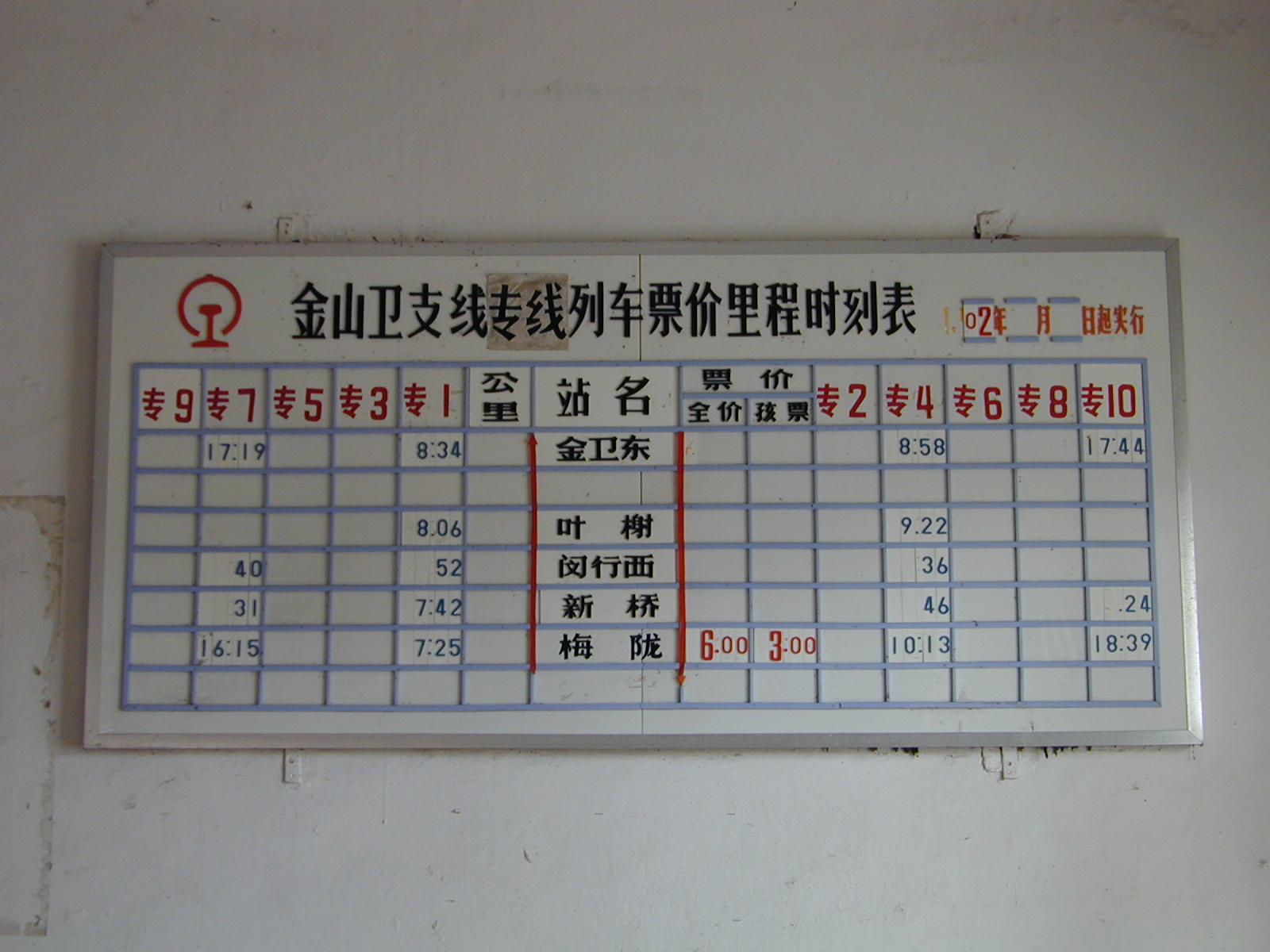 Time Table of Jinshan Railway. Taken on Jun.18, 2003.